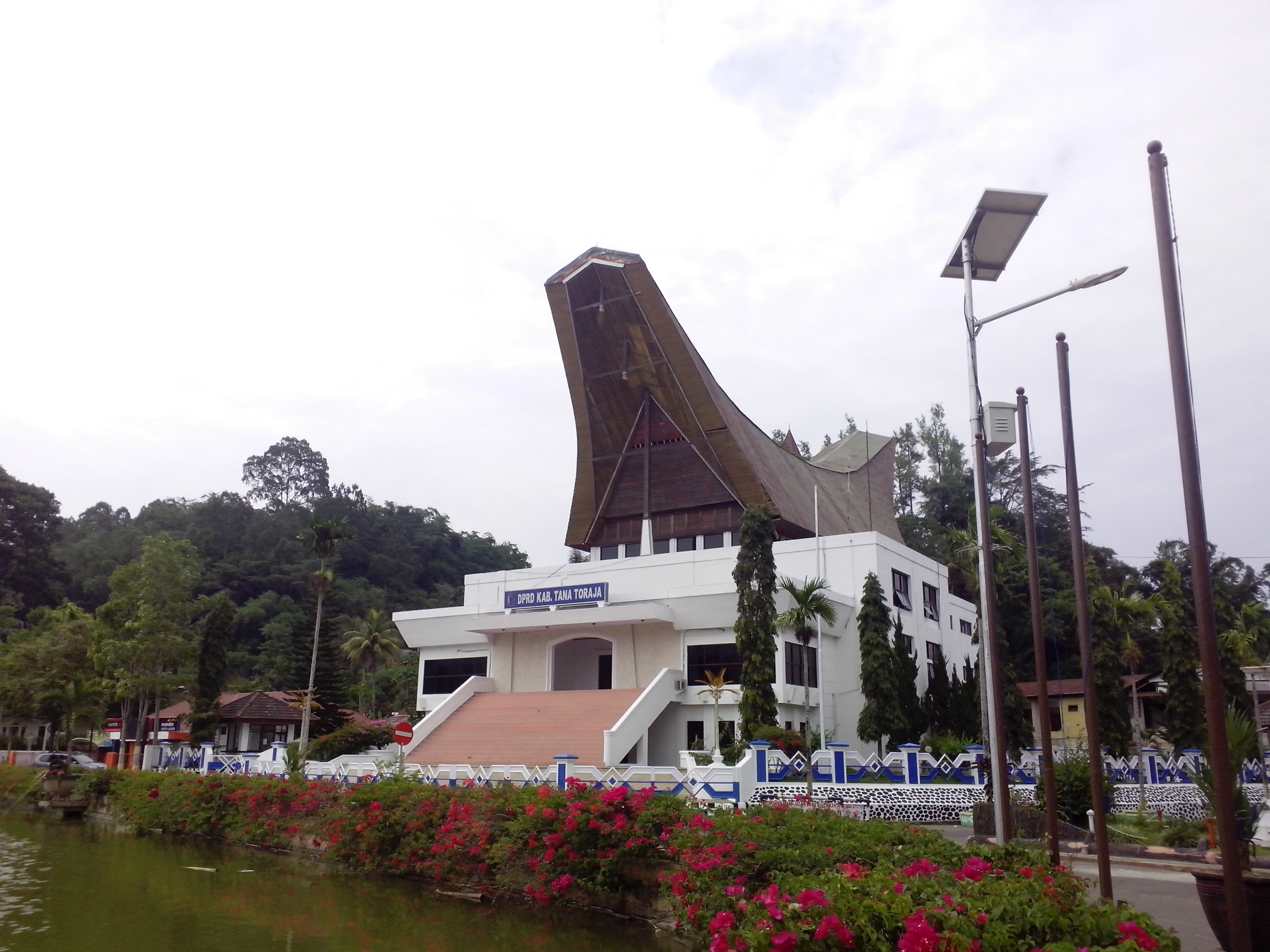 The Office of Regency Regional Houses of People's Representatives of Tana Toraja Regency has Tongkonan style to the building.